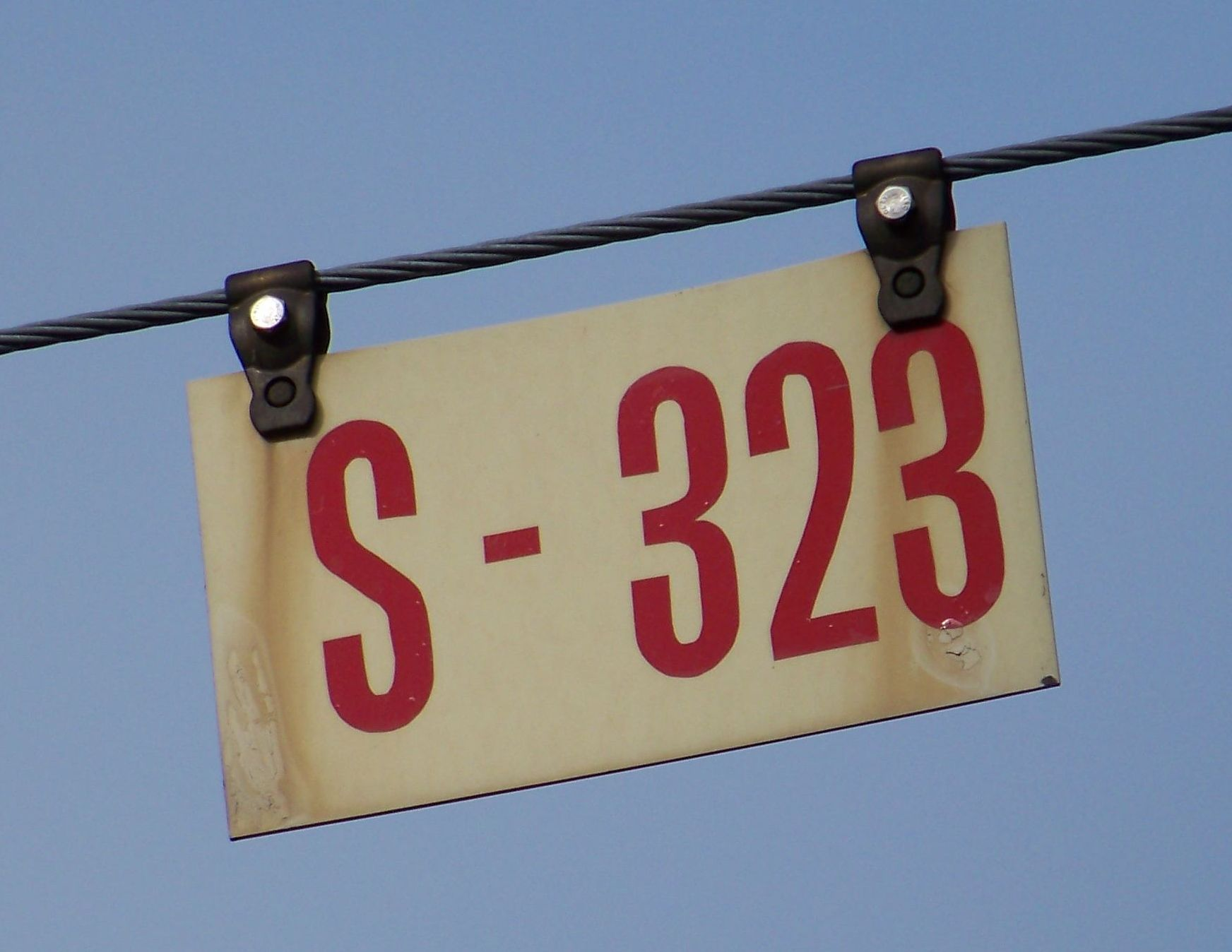 Teplice, Teplice District, Ústí nad Labem Region, the Czech Republic. Školní street, a sign of trolleybus overhead lines.